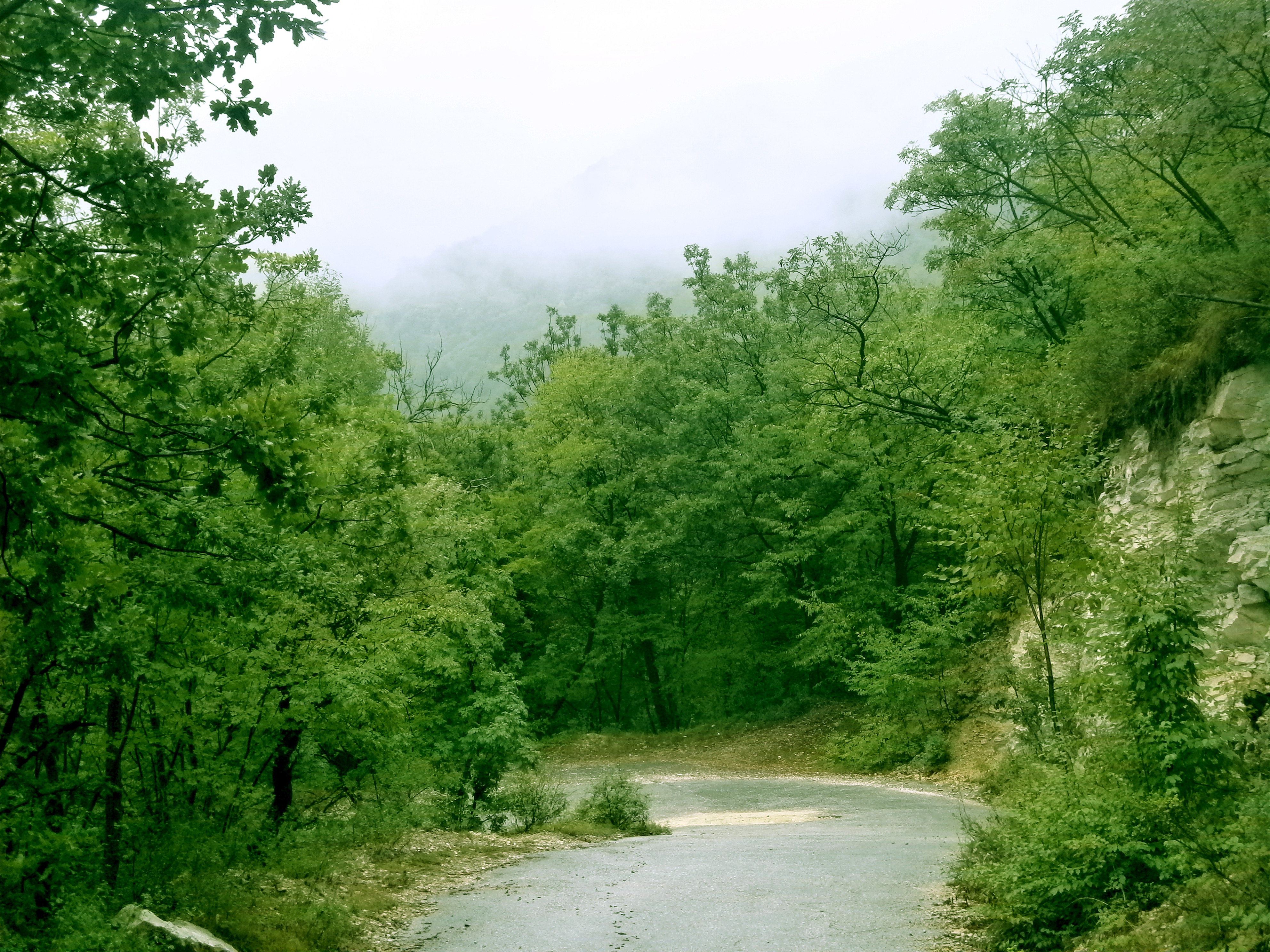 The road to the cave Snezhanka (cave)